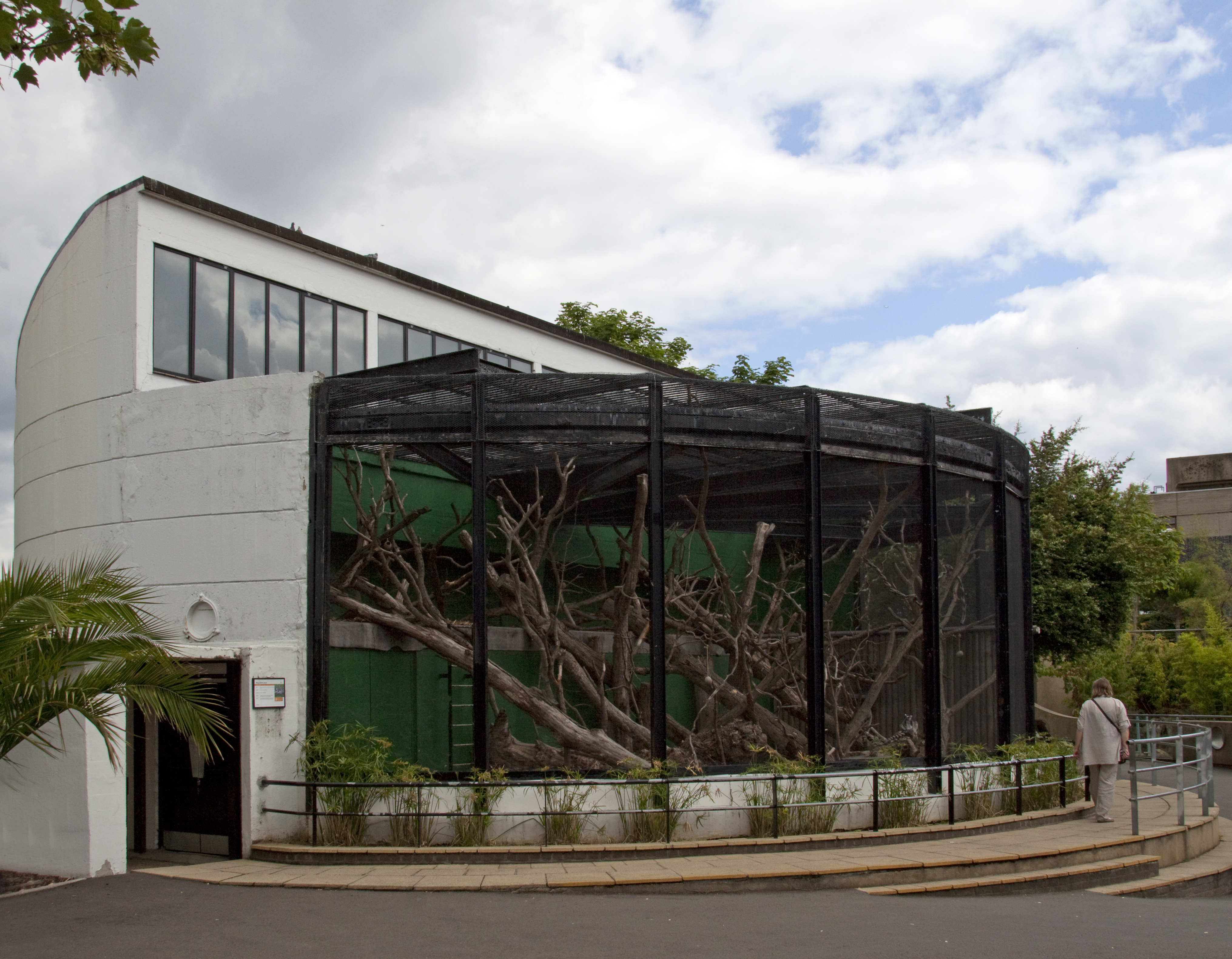 The Gorilla house was designed by Berthold Lubetkin and Godfrey Samuel in 1932. The house is now home to a troop of Ring-tailed Lemurs The building is a grade 1 listed building